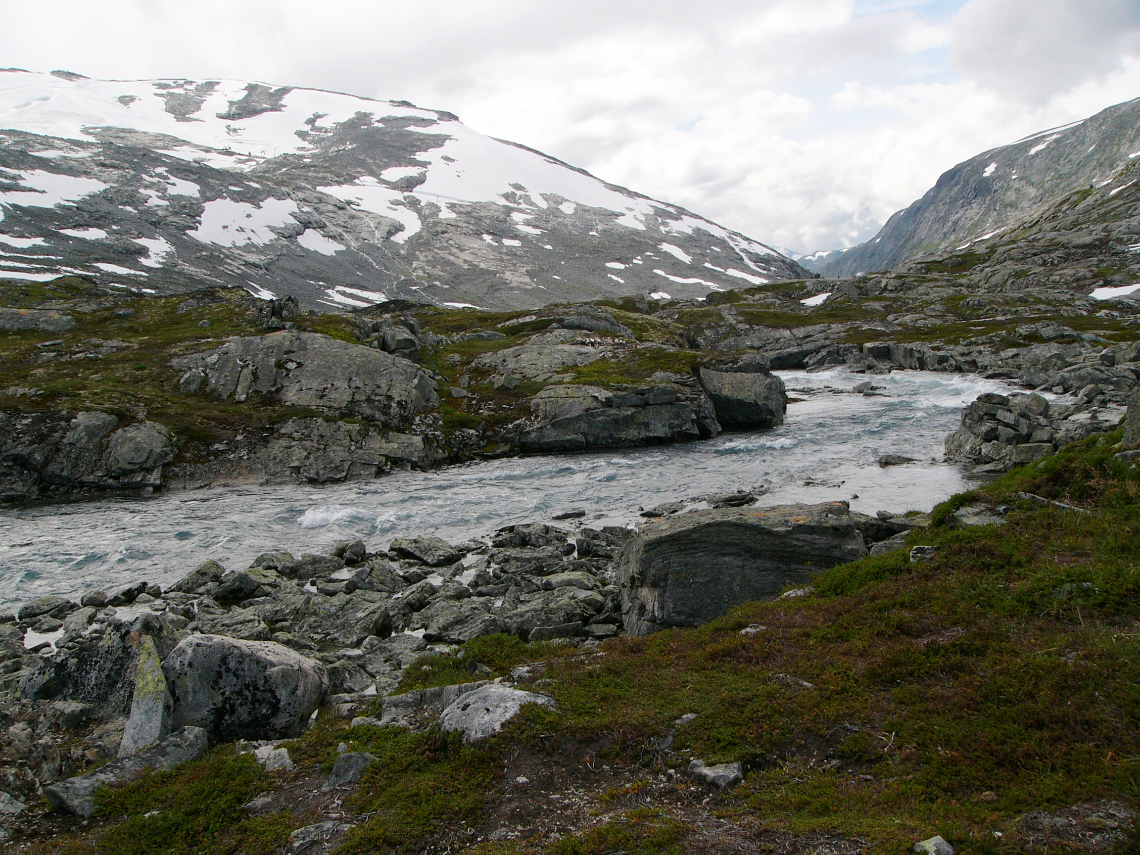 Gamle Strynefjellsvegen